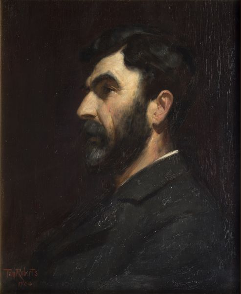 Oil painting of Professor George W.L. Marshall-Hall in painted by 1900Tom Roberts (Australian, 1856–1931)